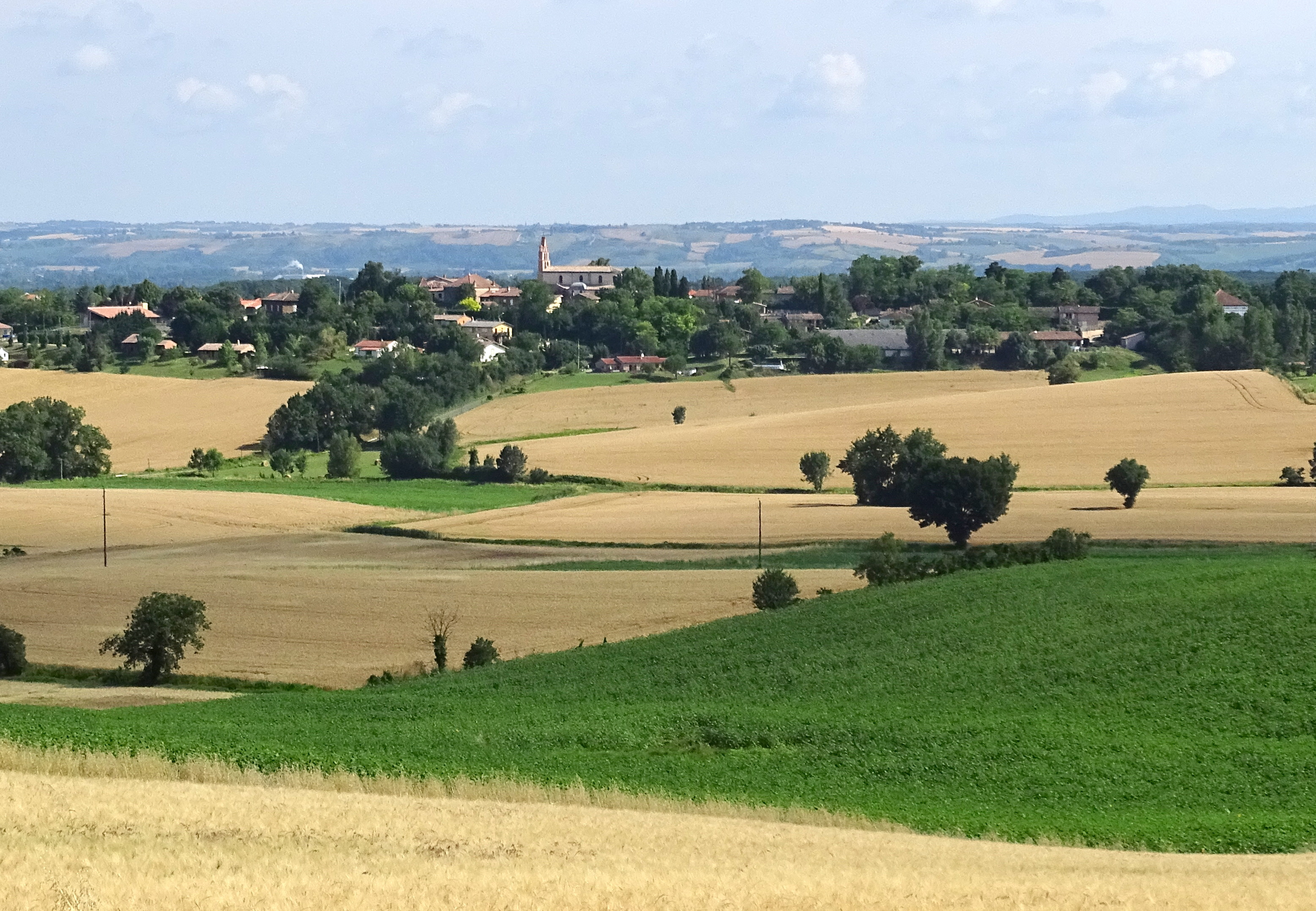 Vue de Paulhac since the road of the peaks